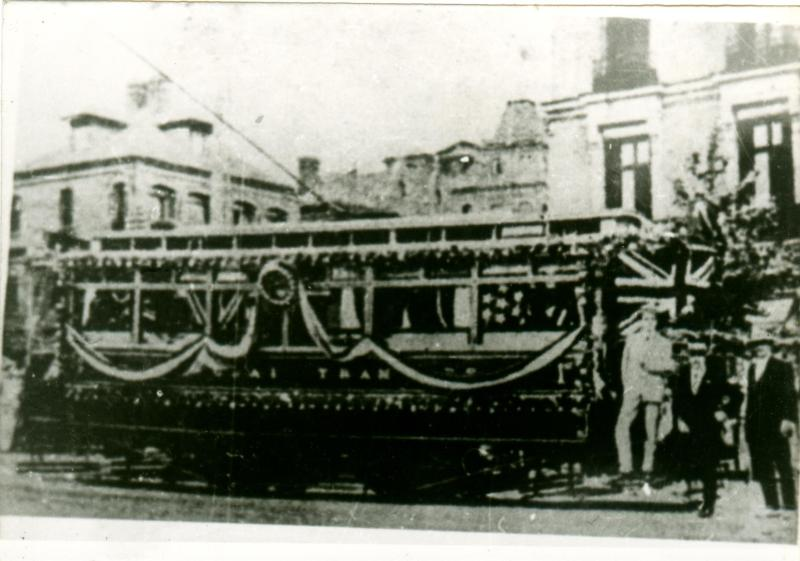 A bus served as Route 20, which operated by Shanghai Tramway in 1928. 中文（中国大陆）: 1928年，由上海英商电车公司运营的20路电车